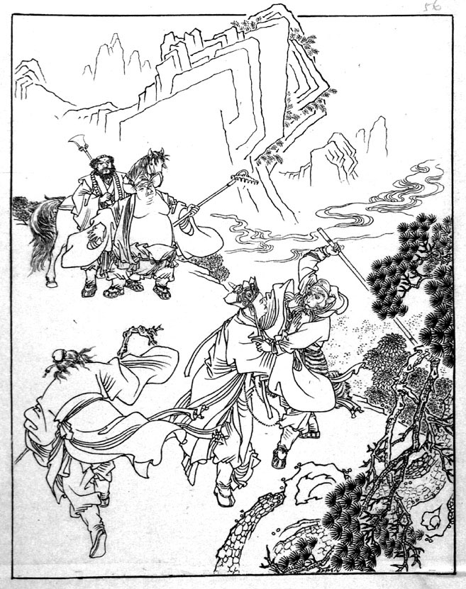 At the upper left, Sha Seng (沙僧) and Zhu Bajie (猪八戒), at the bottom left, Baigu Jing （白骨精), and at is right, Xuanzang (玄奘) fighting with Sun Wukong (孙悟空) in the Journey to the West.